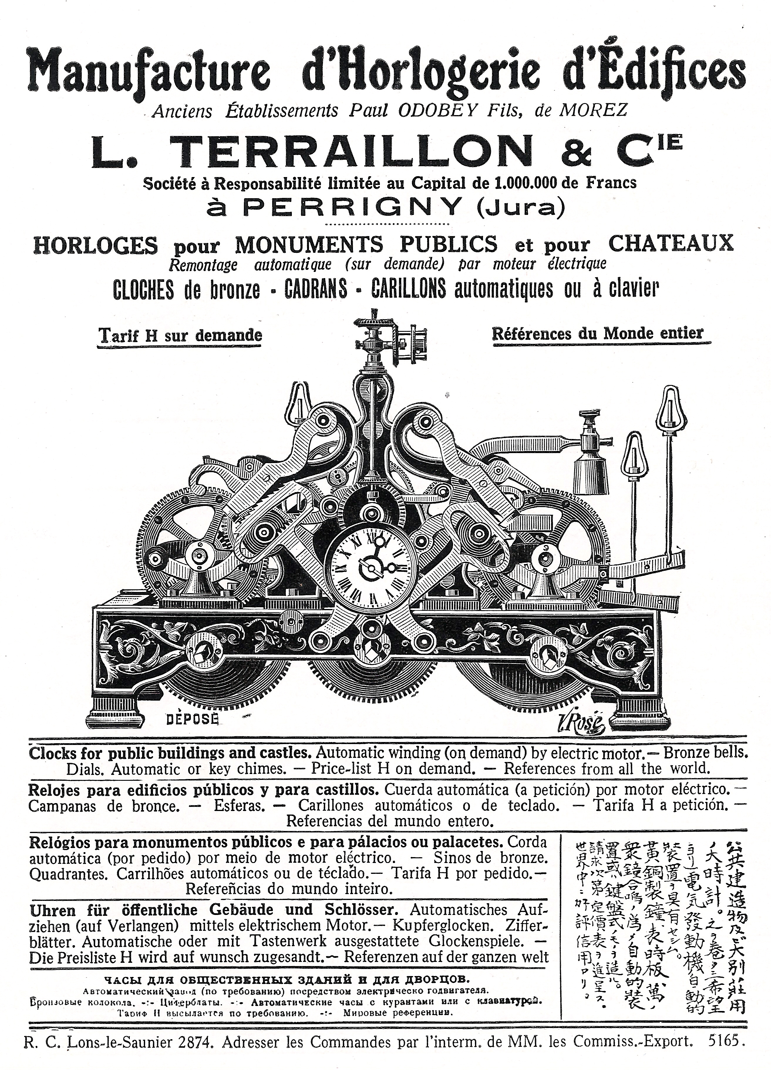 Clocks for public buildings and castles.